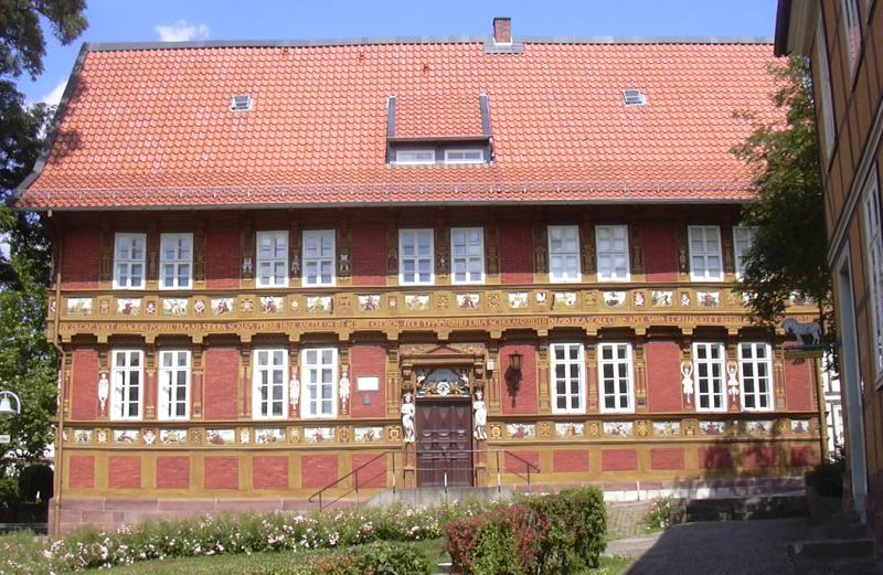 Old latin school in Alfeld (Leine), Germany